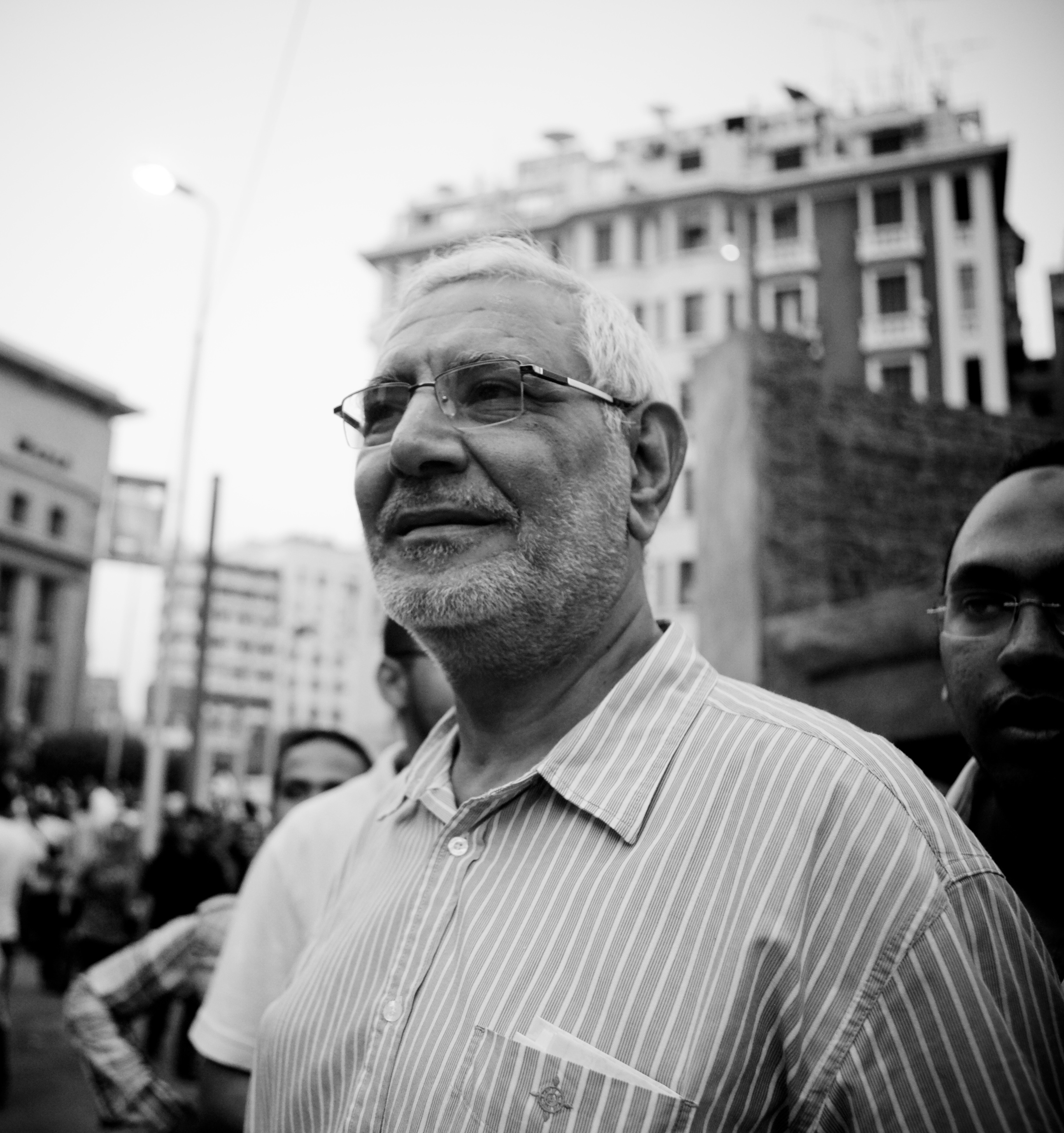 Dr. Abdel Moneim Aboul Fotouh, presidential candidate and former Muslim Brotherhood leader, briefly attended the march for judicial independence on Friday, 9 September 2011, as protesters take to Tahrir Square denouncing military tribunals, calling for ousting the ruling Supreme Council of Armed Forces, Mubarak's generals.